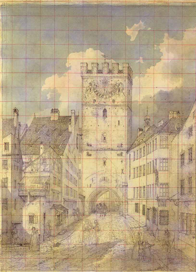 Inner Sendlinger Tor in Munich, also called Ruffiniturm, Pütrichturm or Blau-Enten-Turm